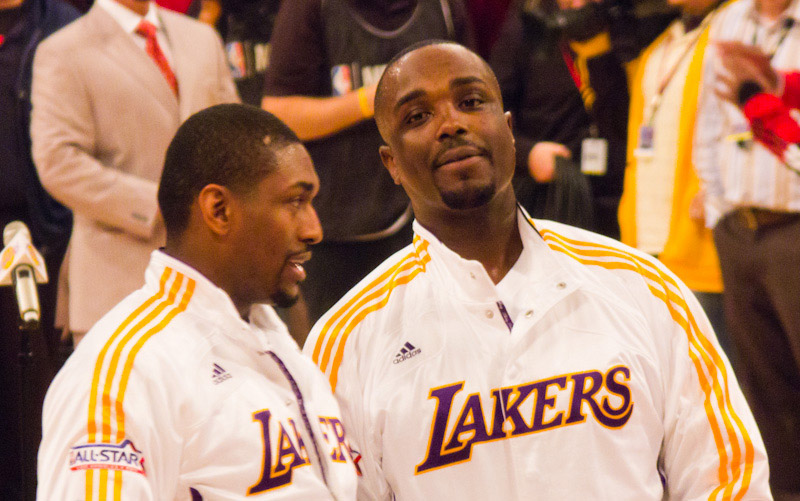 Derrick Caracter and Ron Artest of the Los Angeles Lakers.